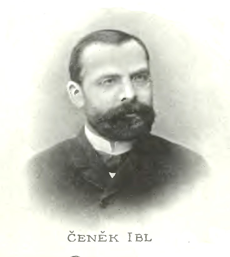 Portrait of Čeněk Ibl (1851-1902), Czech writer and translator.